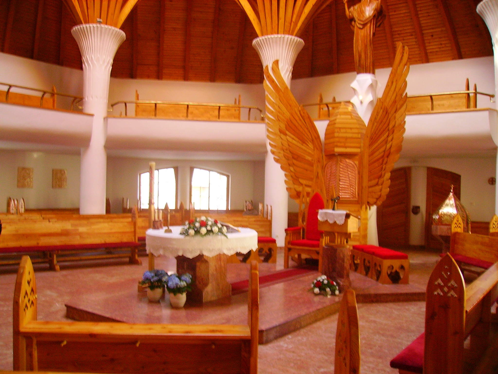 Roman Catholic Church in Csikszereda (Miercurea Ciuc) in Transylvania, designed by Makovecz Imre and Bogos Ernő. In Hungarian: Római Katolikus templom, Csíkszereda (tervezte: Makovecz Imre és Bogos Ernő, felszentelve 2003-ban)